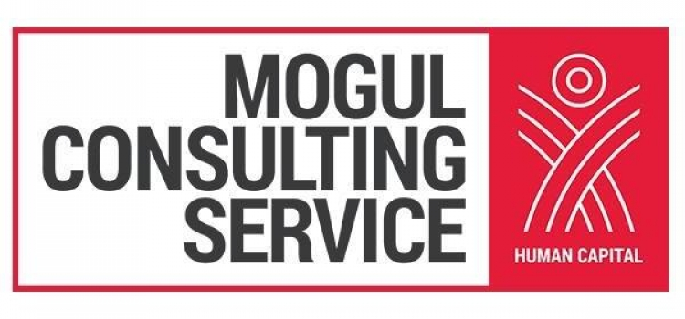 Mogul Consulting LLC